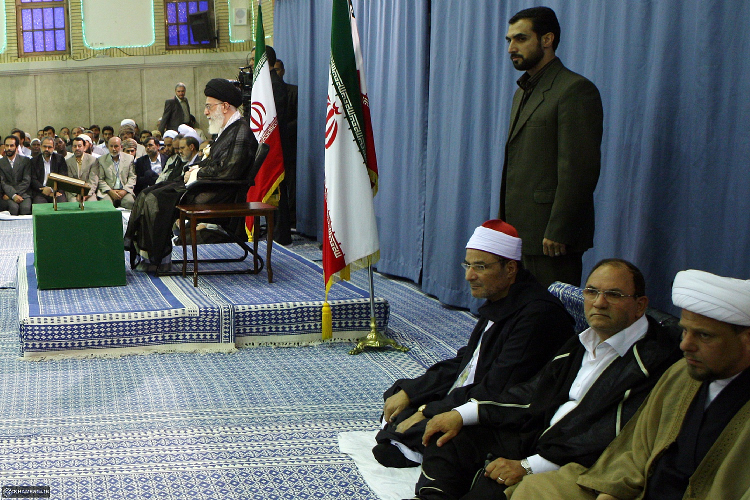 Farajollah Shazli in International Quran Competition's participants Meeting With Ayatollah SeyyedAli Khamenei in 15 July 2010 in Imam Khomeini Hussainiya